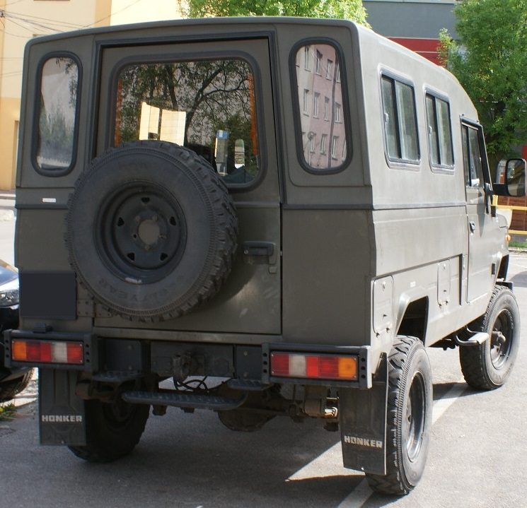 Honker back